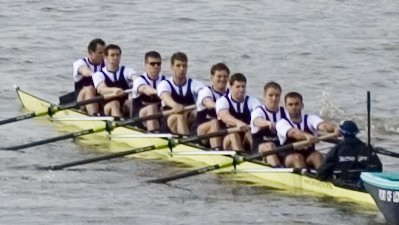 The team of Oxford at the first stroke at the start of the 2009 Oxford and Cambridge Boat Race